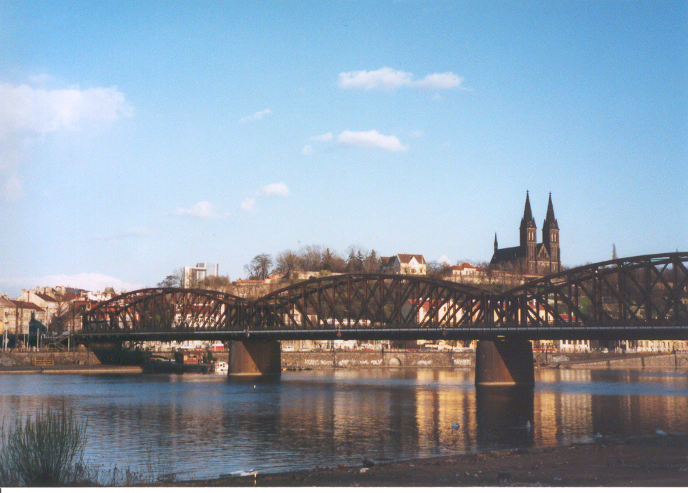 Prague railway bridge from Smíchov